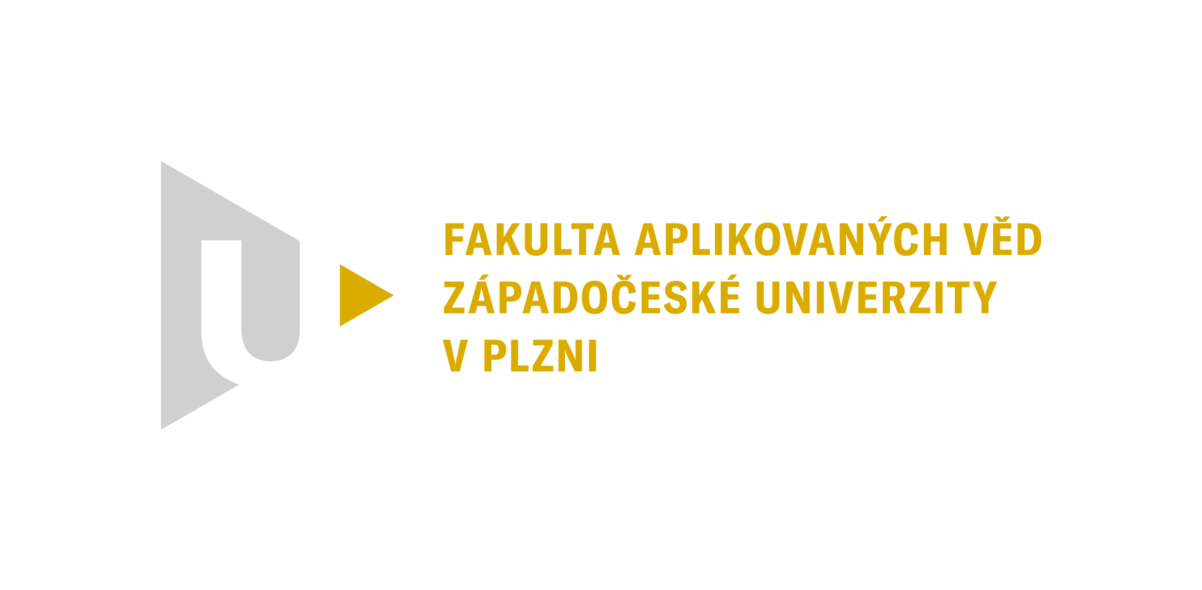 University, Faculty of applied Sciences, University of West Bohemia